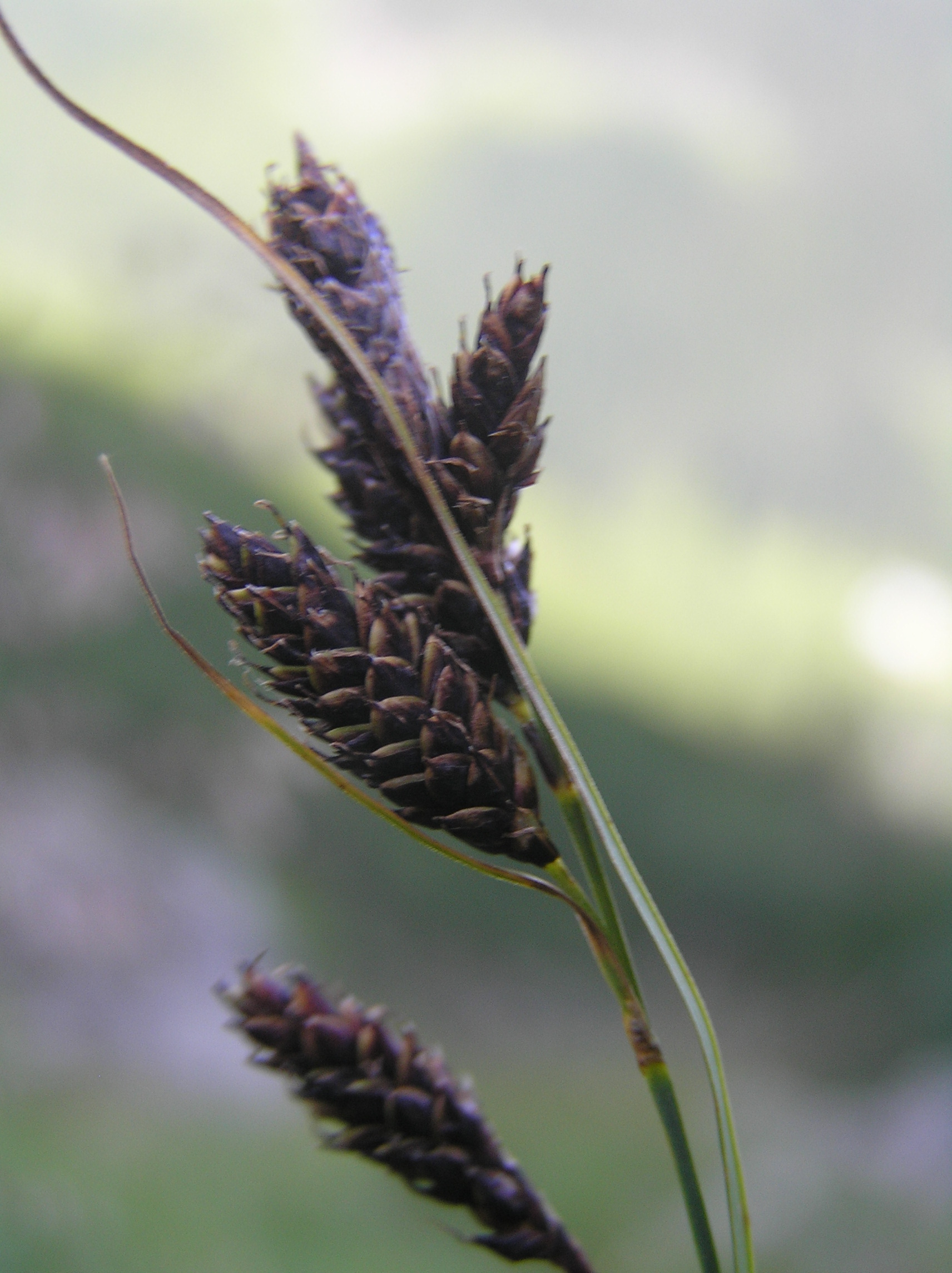 Carex aterrima, Krkonoše, Malá Studniční jáma, Czech Republic